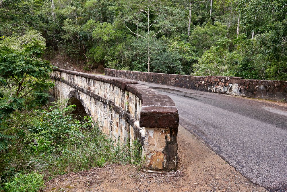 Mt Spec Road and Little Crystal Ck Bridge Paluma, 2016